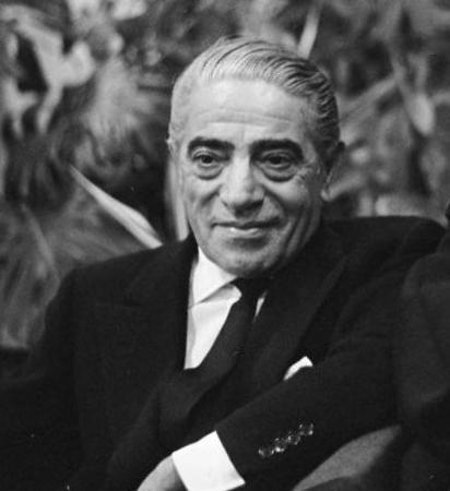 Greek shipowner Aristotle Onassis